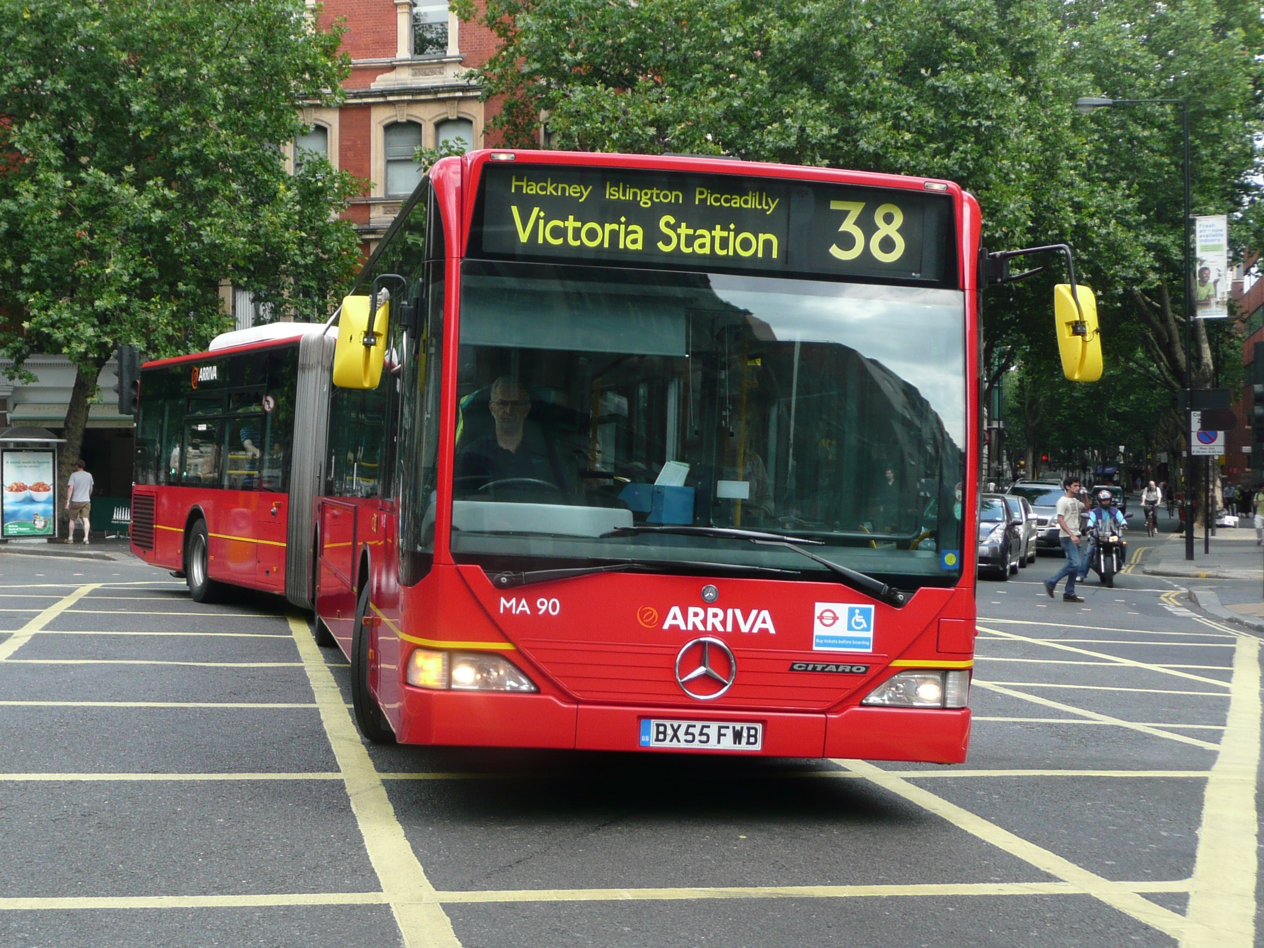 Arriva London MA90 (BX55 FWB), a Mercedes-Benz Citaro G, operated in London on London Buses route 38. It is turning right from Charing Cross Road into Shaftesbury Avenue.